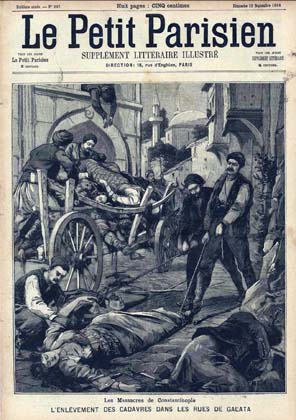 Armenian Massacre in Constantinople The gathering of the corpses of victims, street of Galata “Le Petit Parisien”, September 13, 1896, Paris